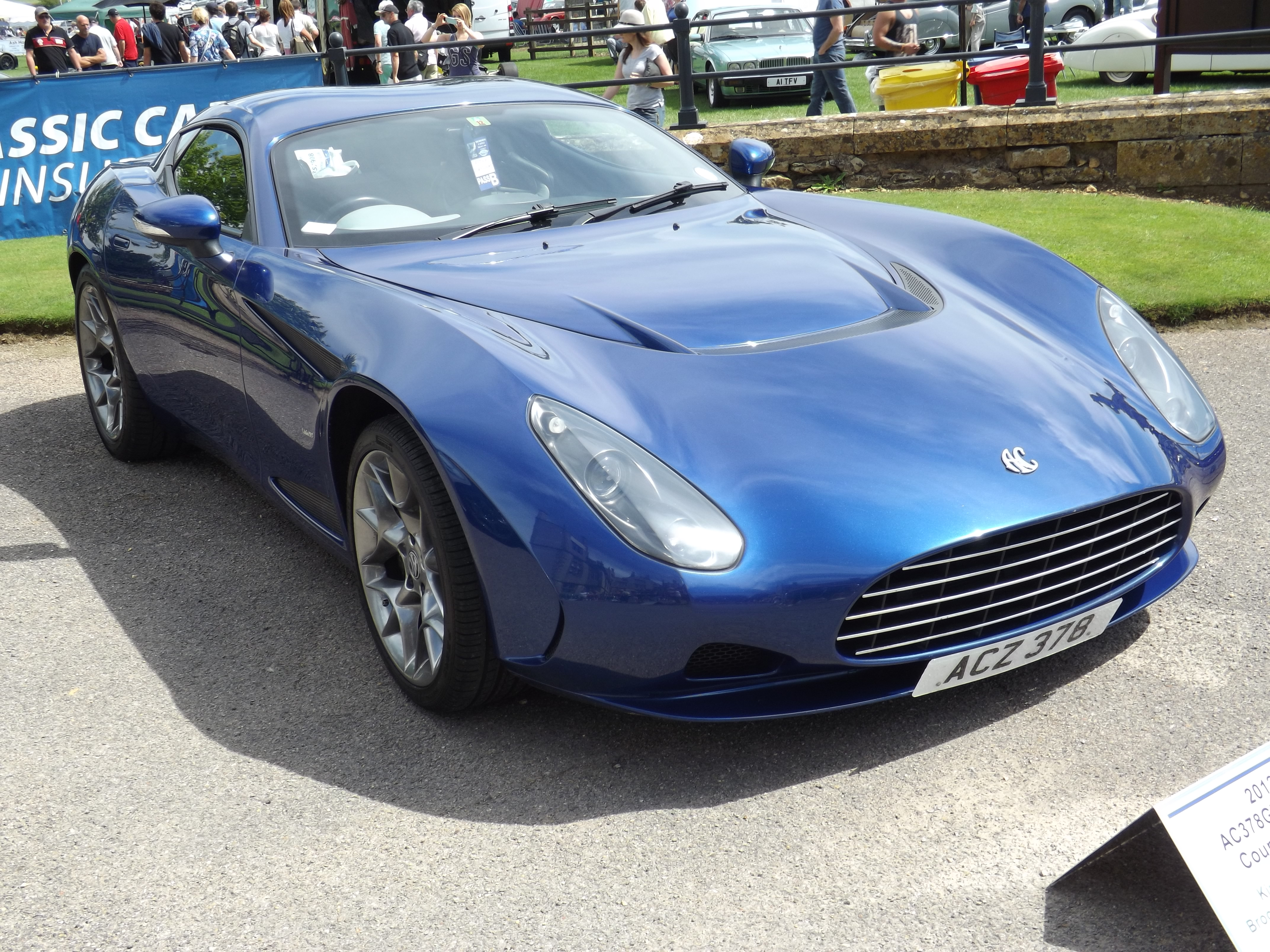 Interesting Zagato body first shown in 2012. Built in South Africa by Hi-Tech Automotive, with 6.2 litre Camaro engine. Spotted at Sherborne Classics at the Castle, 20 July 2014